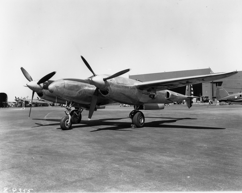 PictionID:42765918 - Title:Lockheed XP-49 40-3055 Burbank Nov42 [mfr via RJF] - Catalog:17_000180 - Filename:17_000180.tif - --------Image from the René Francillon Photo Archive. Having had his interest in aviation sparked by being at the receiving end of B-24s bombing occupied France when he was 7-yr old, René Francillon turned aviation into both his vocation and avocation. Most of his professional career was in the United States, working for major aircraft manufacturers and airport planning/design companies. All along, he kept developing a second career as an aviation historian, an activity that led him to author more than 50 books and 400 articles published in the United States, the United Kingdom, France, and elsewhere. Far from “hanging on his spurs,” he plans to remain active as an author well into his eighties.-------PLEASE TAG this image with any information you know about it, so that we can permanently store this data with the original image file in our Digital Asset Management System.--------------SOURCE INSTITUTION: San Diego Air and Space Museum Archive